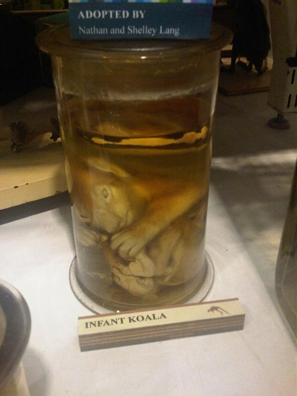 Infant koala (Phascolarctos cinereus) in Grant Museum of Zoology, London, England.